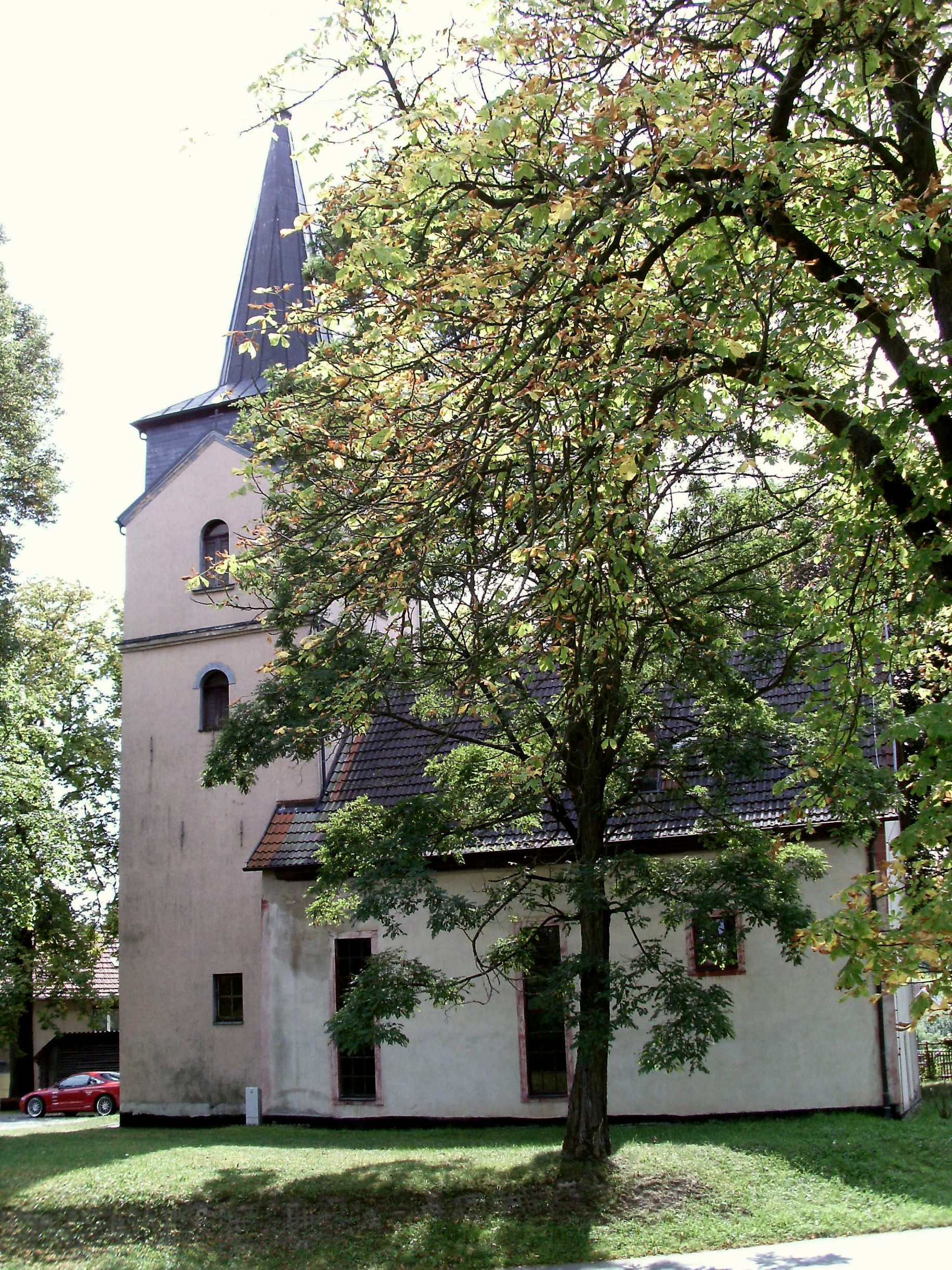 Church in Lederhose (Greiz district, Thuringia)